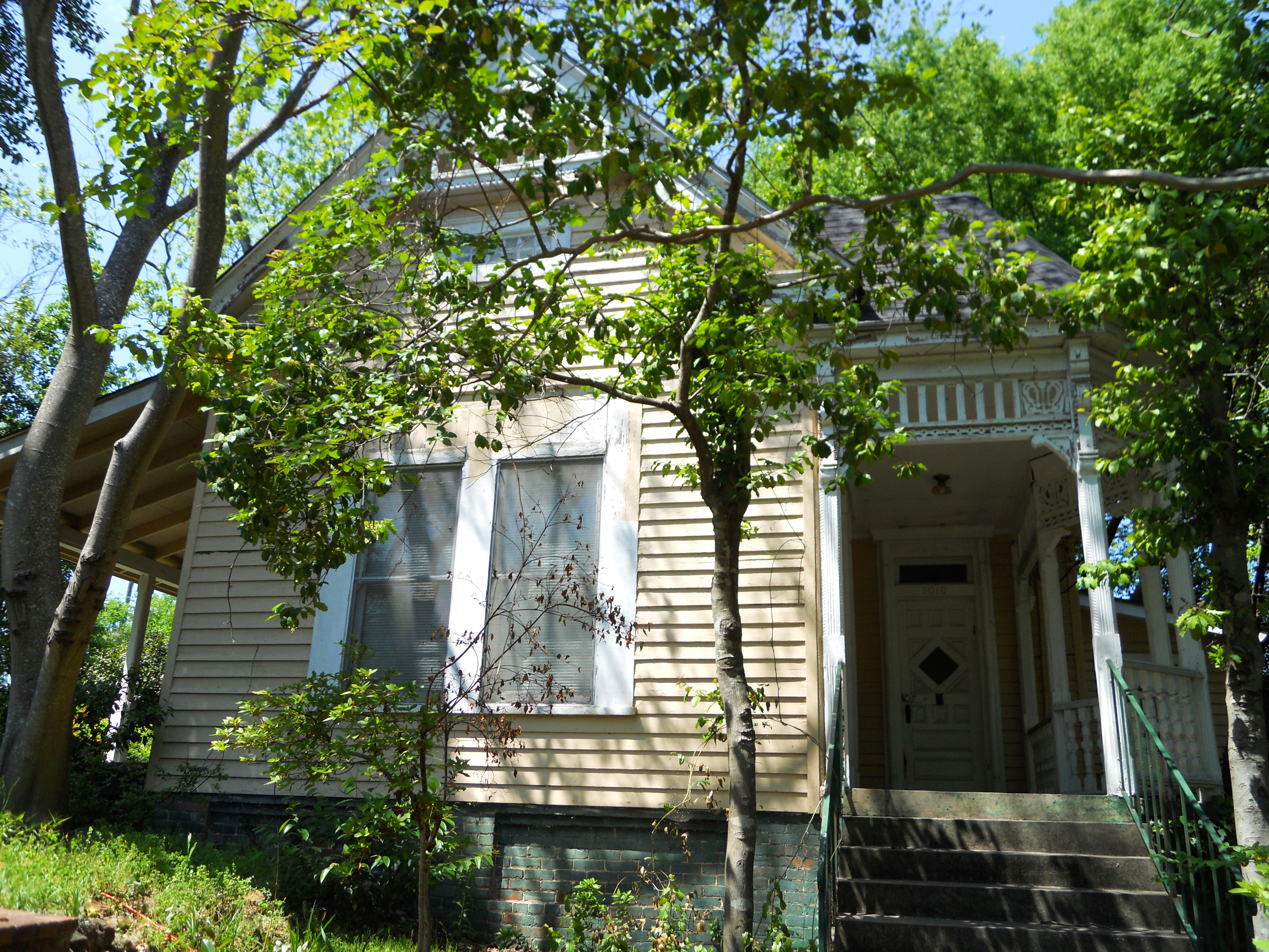 This is a photograph of the Brooks-Hughes House in Phenix City, Alabama. It is listed on the National Register of Historic Places.